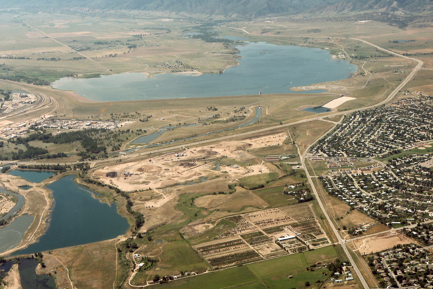 Chatfield dam and reservoir on the South Platte River in Littleton, Colorado, USA.